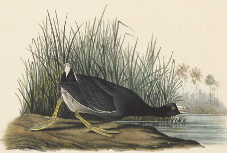 Plate CCCV.— Male. The American Coot Fulica americana "The male, from which I drew the figure in the plate, was procured at General Hernandez's, in East Florida, and was among the best of about thirty shot on one of my excursions there." Ornothological Biography, Or, An Account of the Habits of the Birds of the United States of America: Accompanied by Descriptions of the Objects Represented in the Work Entitled, The Birds of America, and Interspersed with Delineations of American Scenery and Manners, Volume 3 Page 294